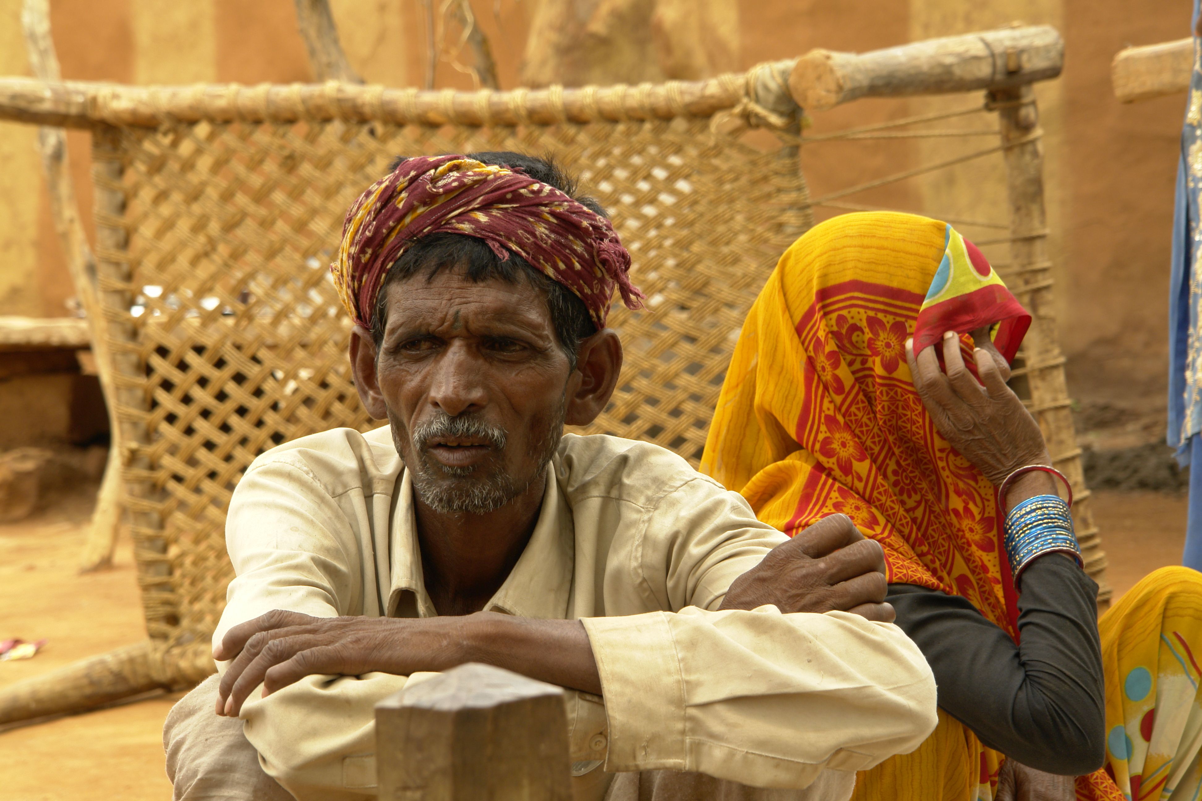 Villagers (Saharia adivasis), Bathpura, district Gwalior, India.